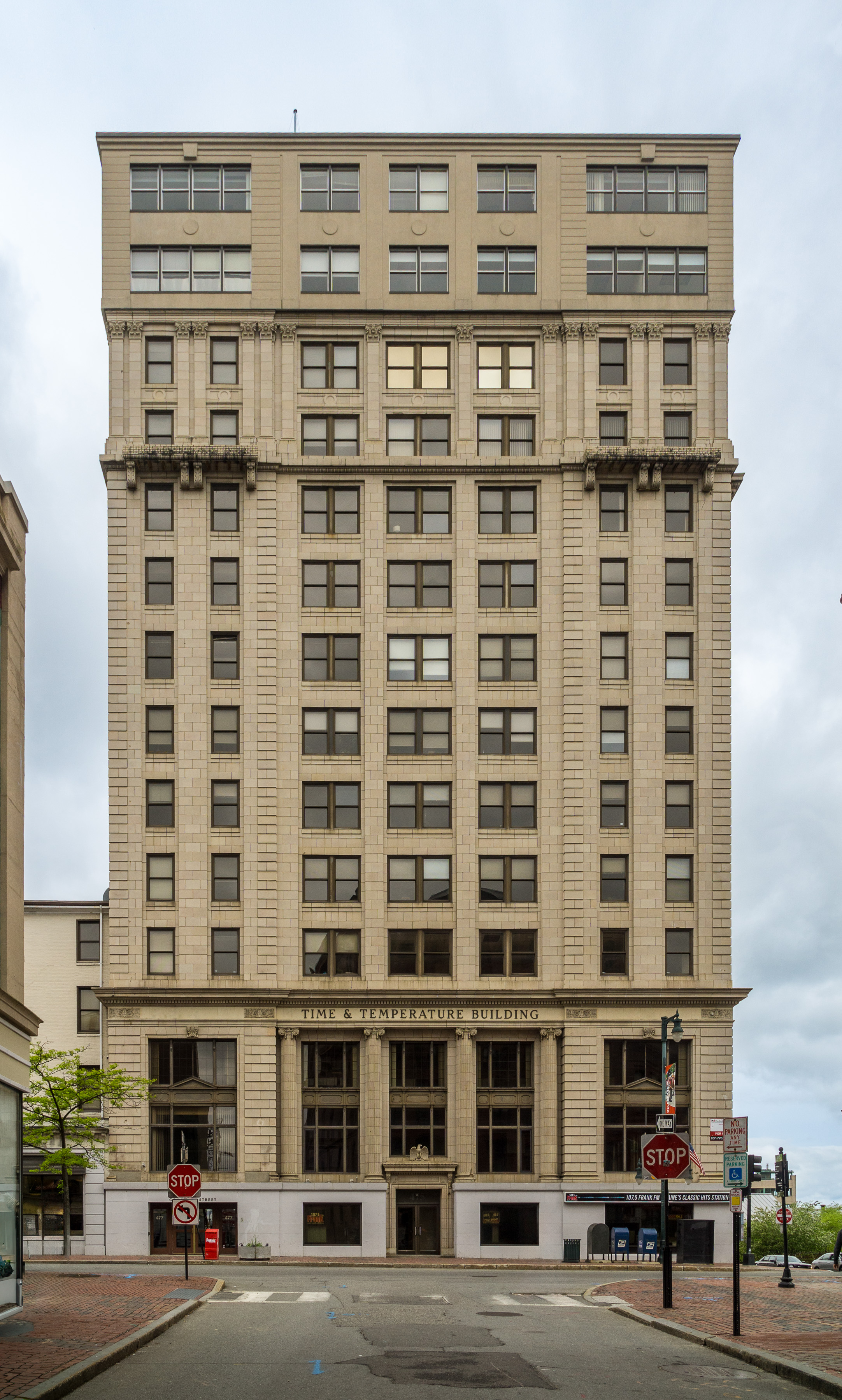 Time & Temperature building, Congress and Center Streets, Portland, Maine